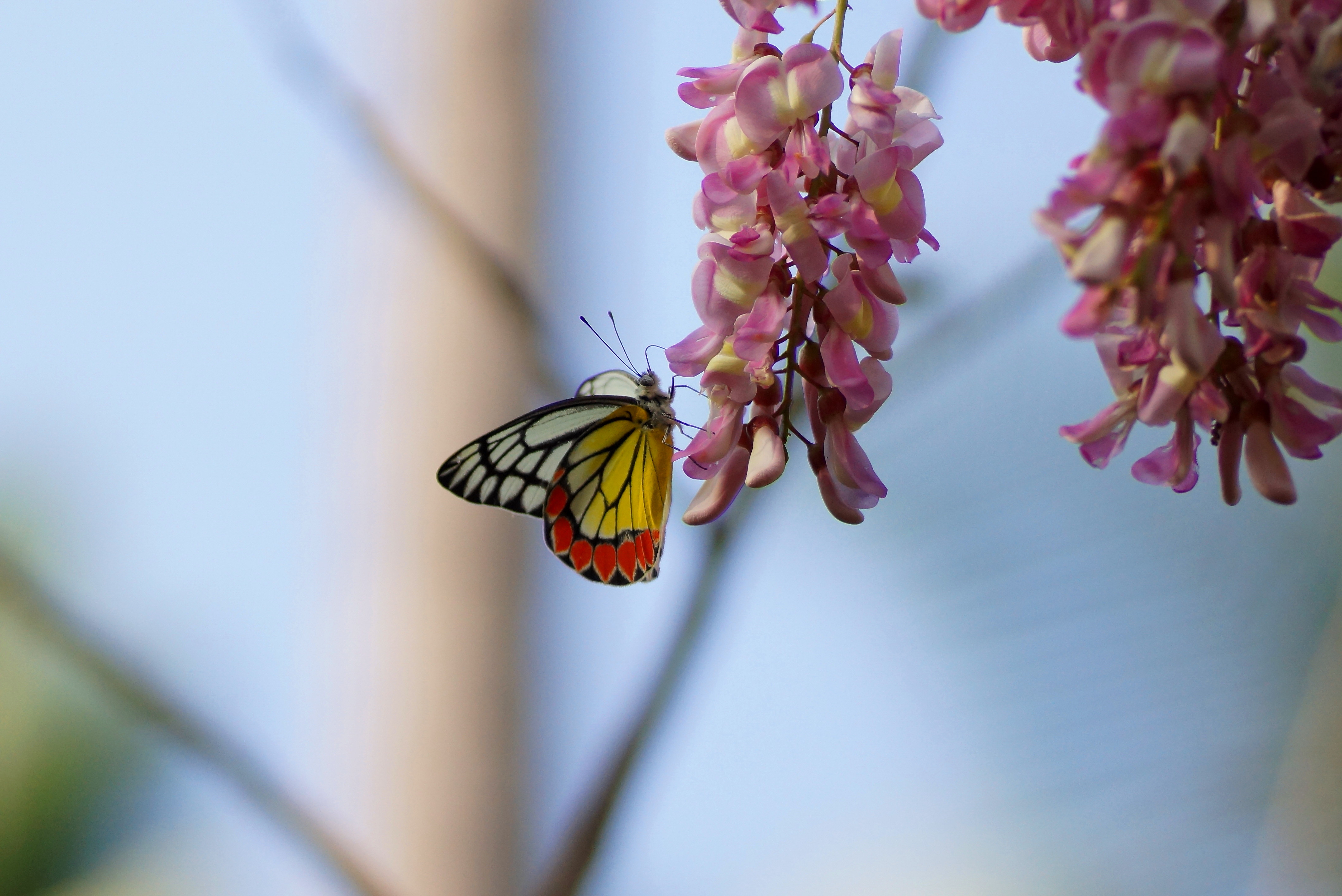 TempName